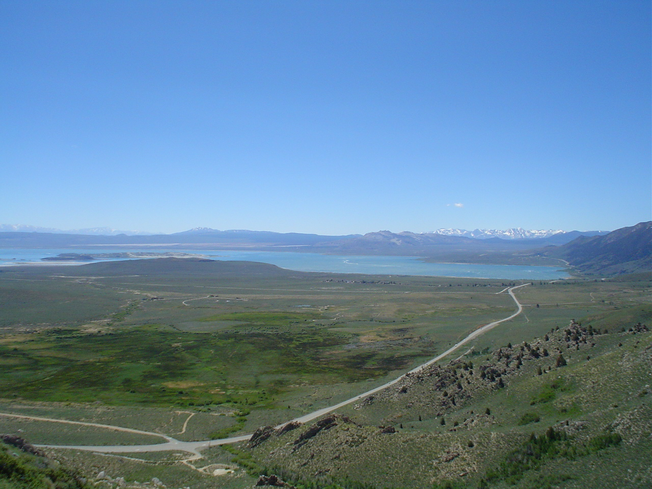 US395 seen snaking to the south around Mono Lake from the Conway Summit viewpoint. Photo by Mike Teague June 2005.